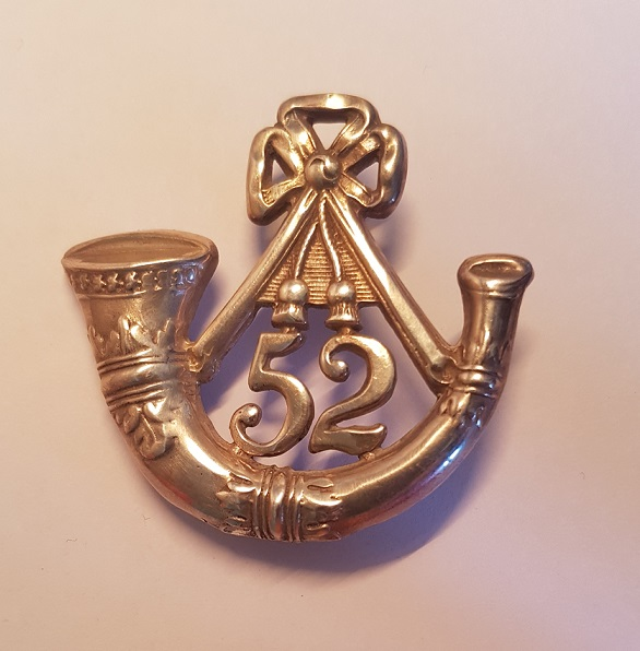 52nd Regiment of Foot Cap Badge from personal collection